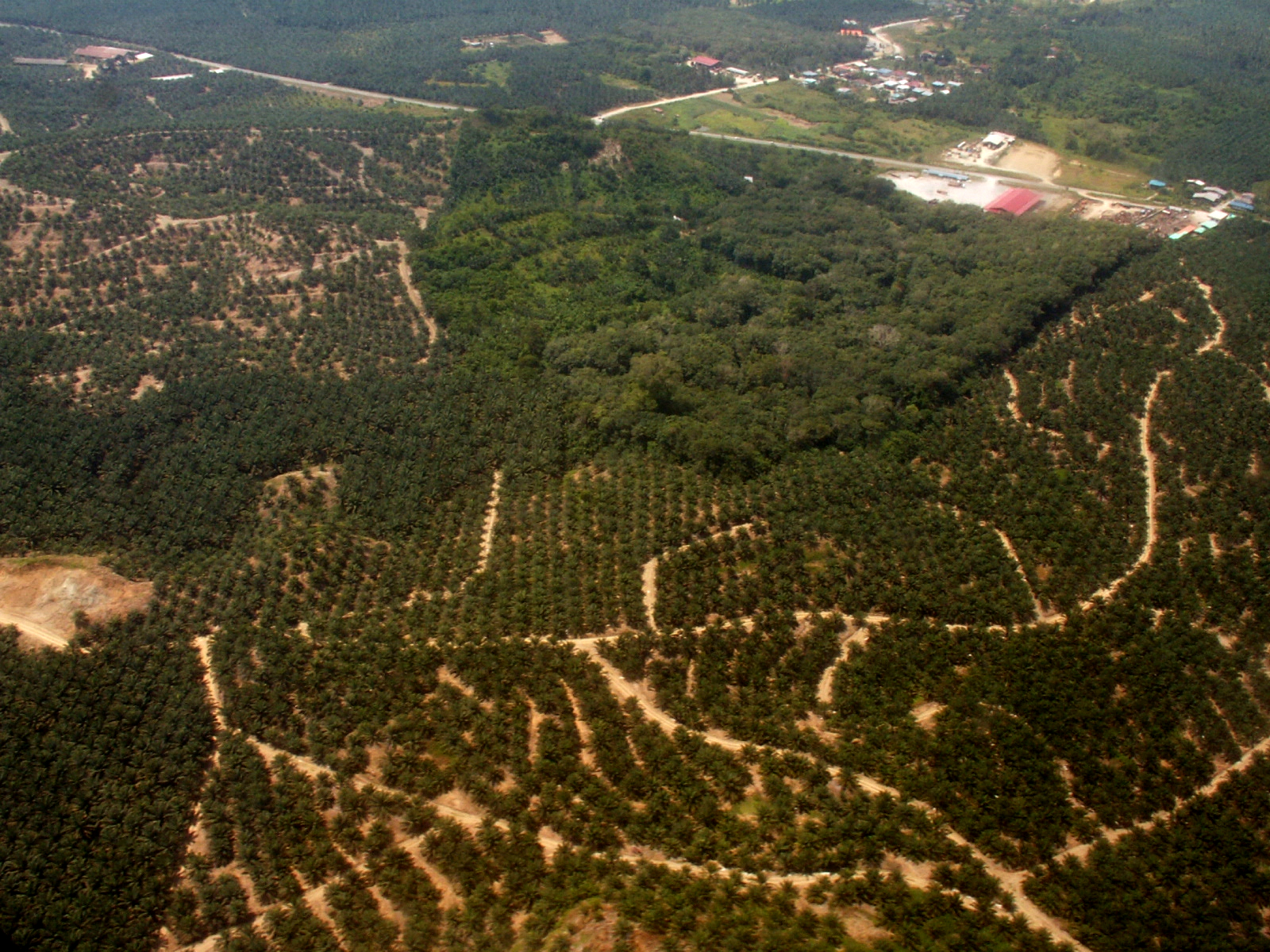 Aerial view of a rainforest fragment amodst large expanse of oil palm plantations in Sabah, Malaysian Borneo